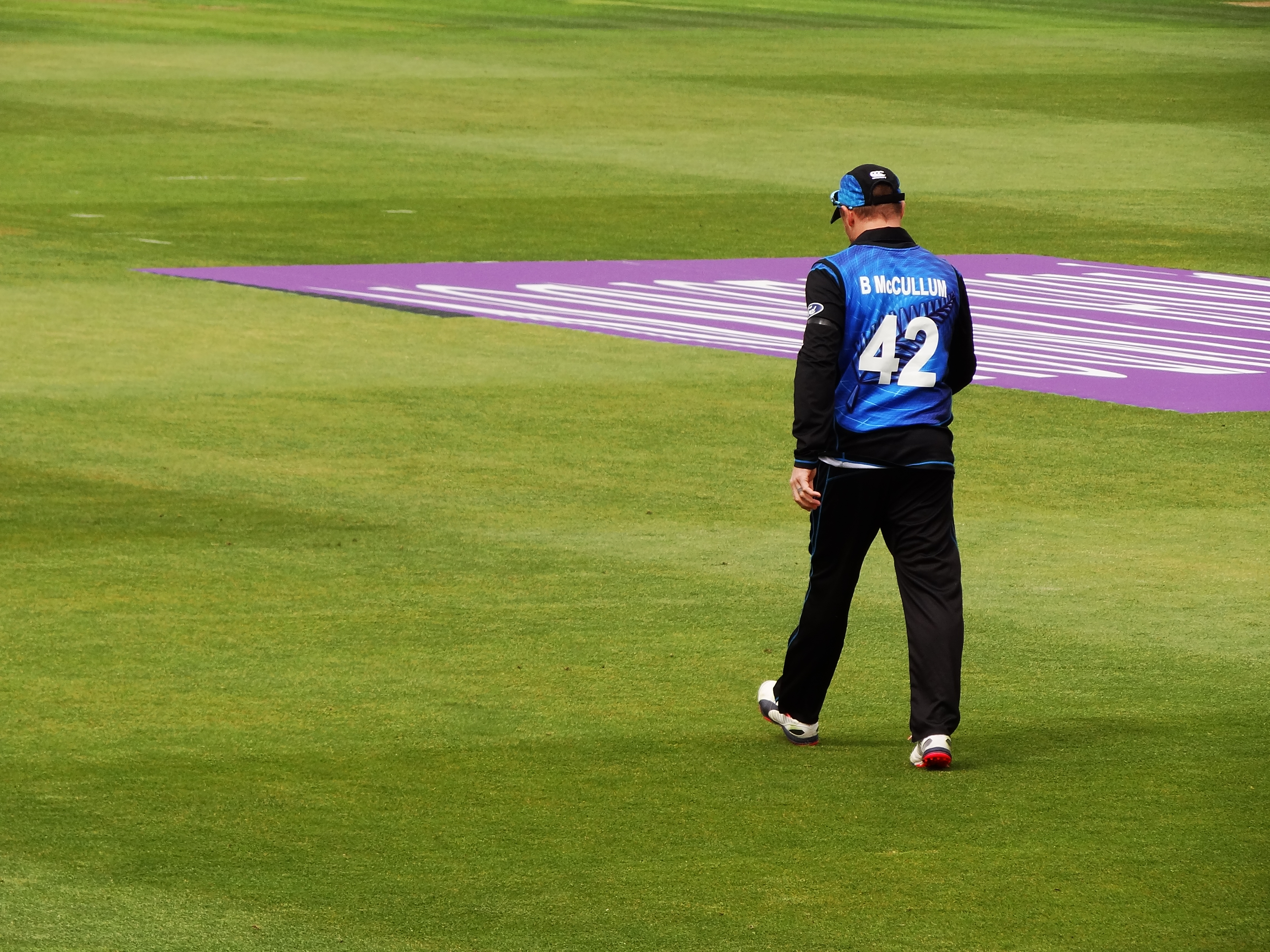 Third ODI between England and New Zealand in 2015